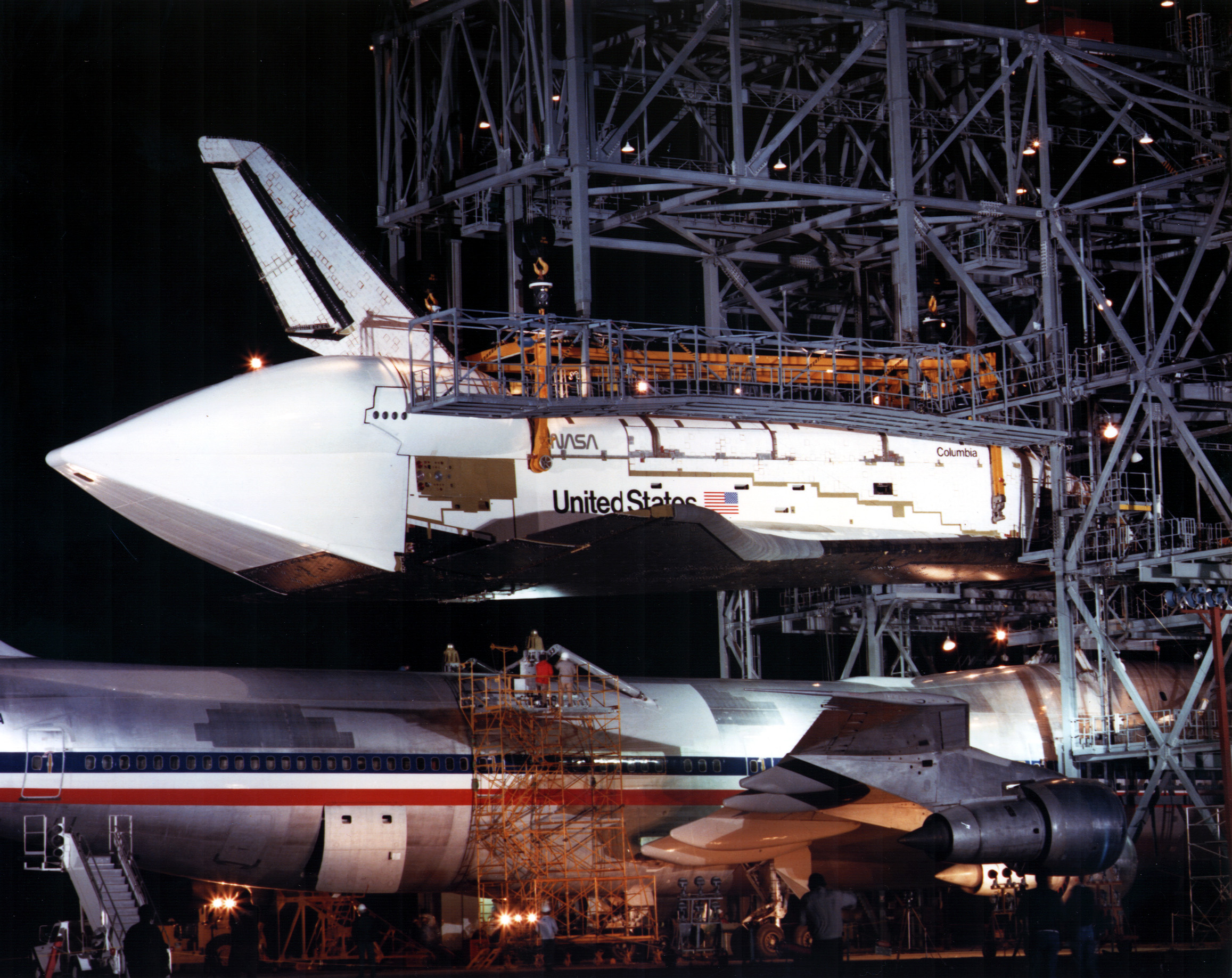 Columbia shortly after seperation from B 747 SCA, in the mate-demate struckture